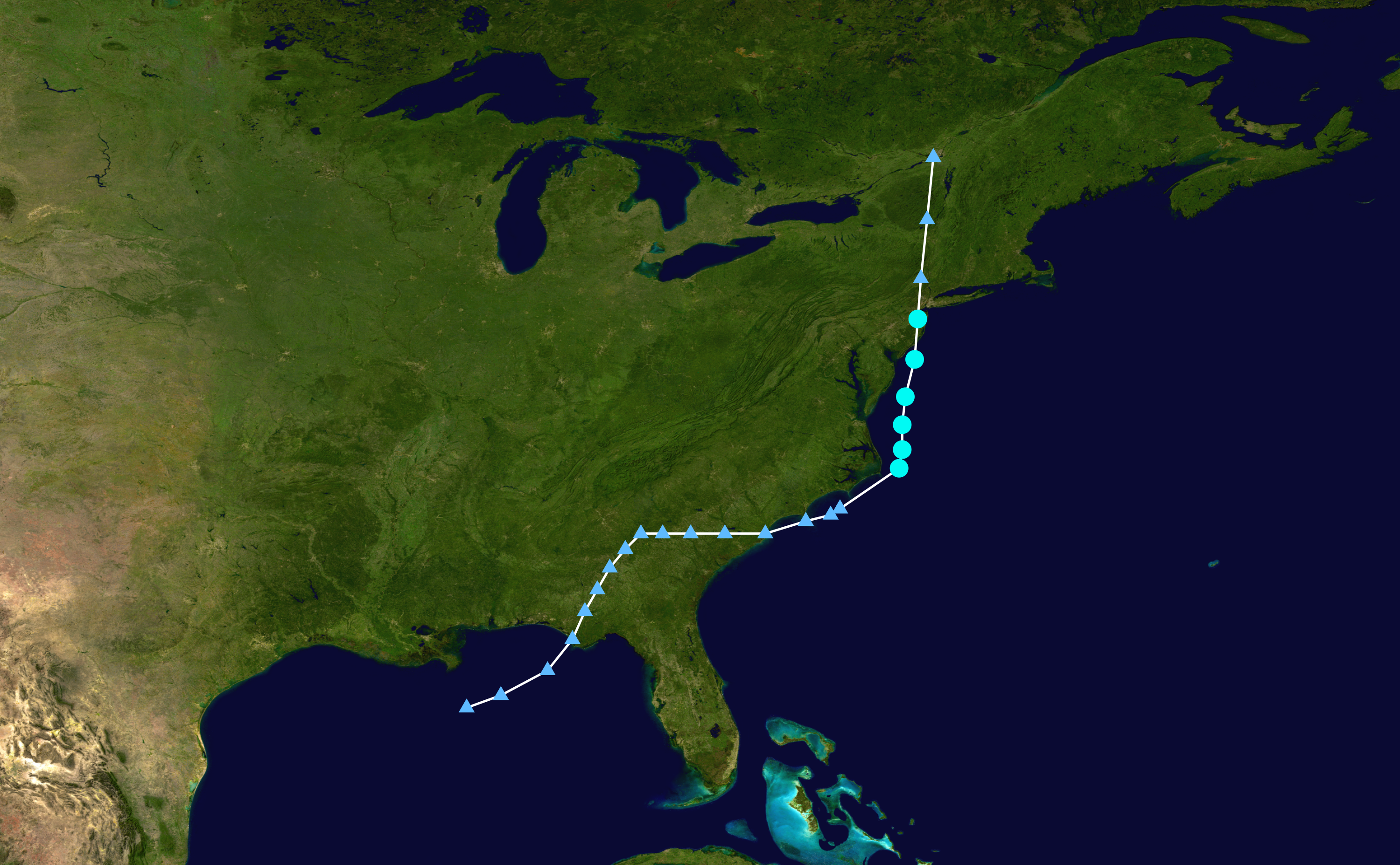 Track map of Tropical Storm Fay of the 2020 Atlantic hurricane season. The points show the location of the storm at 6-hour intervals. The colour represents the storm's maximum sustained wind speeds as classified in the Saffir–Simpson scale (see below), and the shape of the data points represent the nature of the storm, according to the legend below. Saffir–Simpson scale Tropical depression≤38 mph≤62 km/h Category 3111–129 mph178–208 km/h Tropical storm39–73 mph63–118 km/h Category 4130–156 mph209–251 km/h Category 174–95 mph119–153 km/h Category 5≥157 mph≥252 km/h Category 296–110 mph154–177 km/h Unknown Storm type Tropical cyclone Subtropical cyclone Extratropical cyclone / Remnant low / Tropical disturbance / Monsoon depression